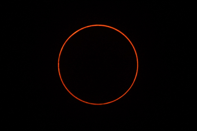 中文（台灣）: Solar eclipse of 21 June 2020 in Taiwan